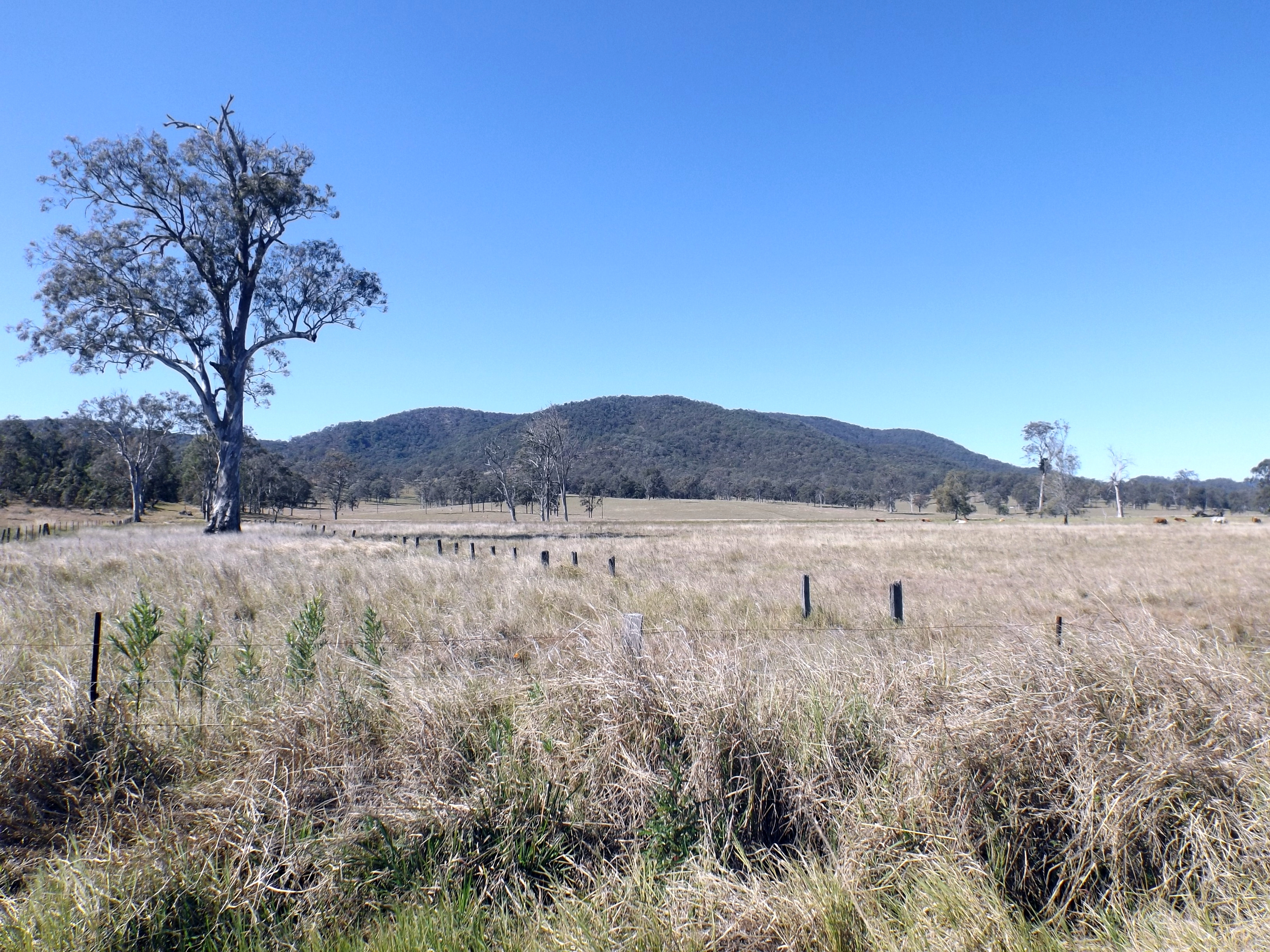 Photo of paddocks along Stanton Road at Neurum, Moreton Bay Region, Queensland, Australia. Neurum Mountain is visible in the background.